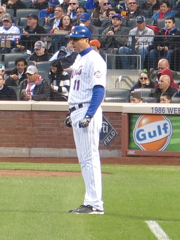 Tim Teufel with the New York Mets, April 27, 2016.